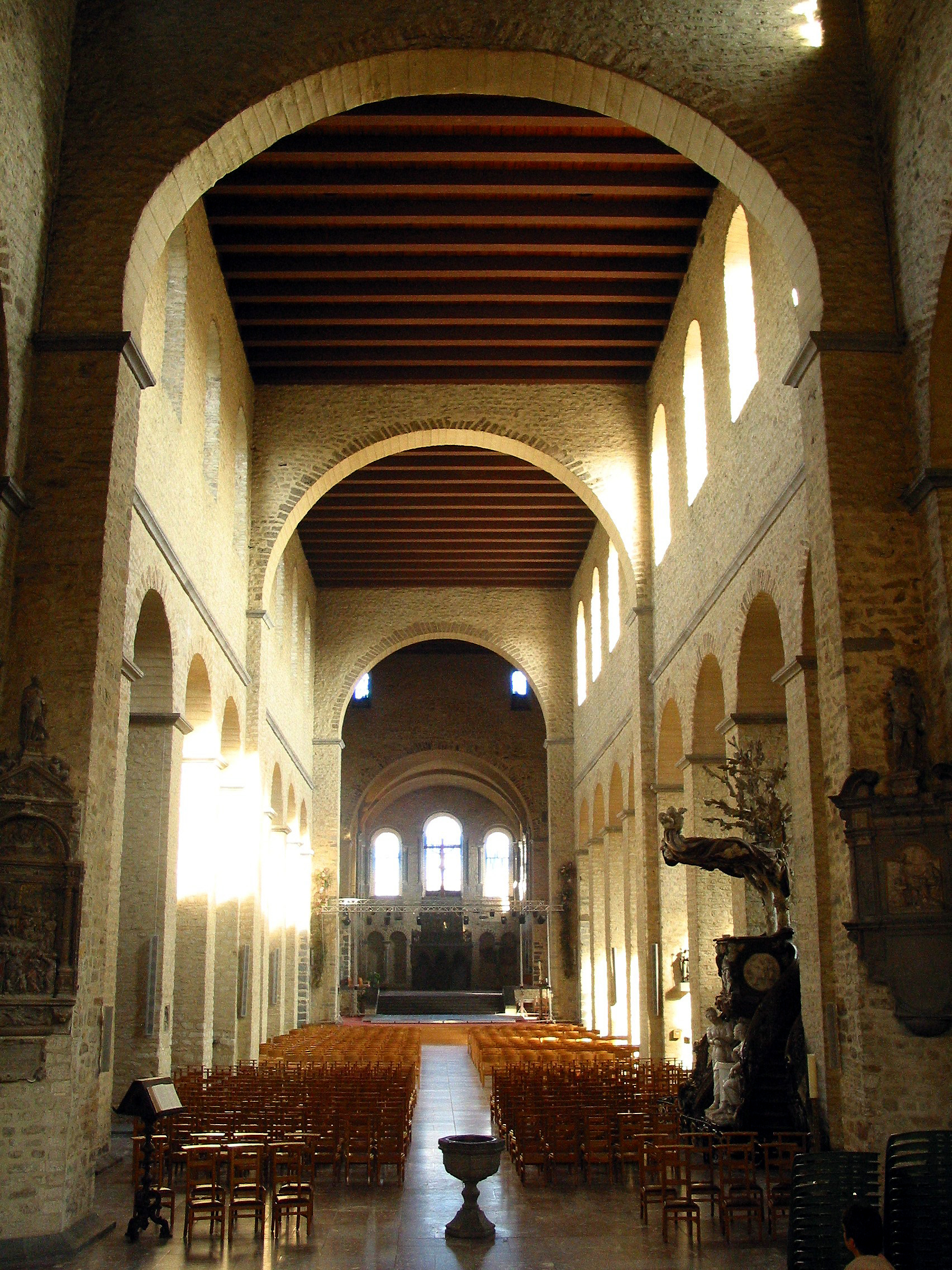 Nivelles (Belgium), St. Gertrude Collegiate church nave (XI/XIIIth centuries).